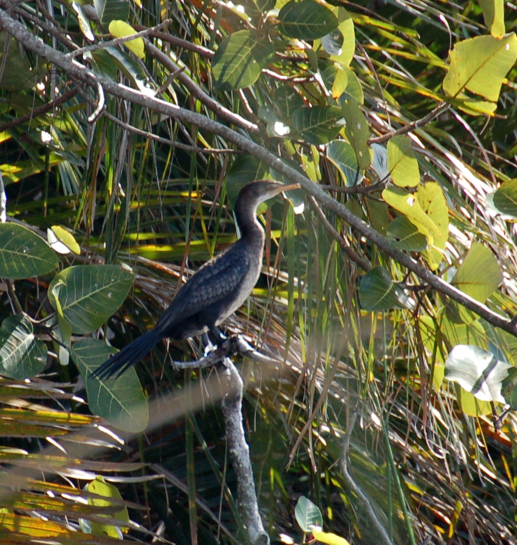 Long-tailed Cormorant,Okvango delta (Botswana)